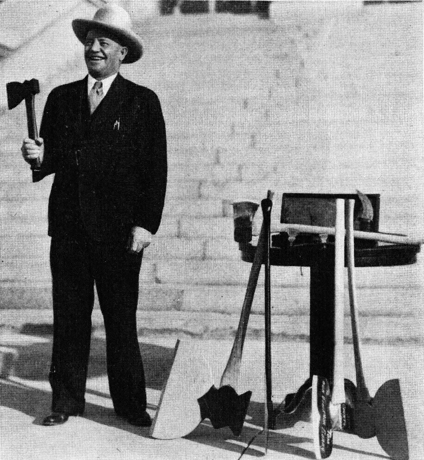 Tom Berry, Governor of South Dakota (1933–37)